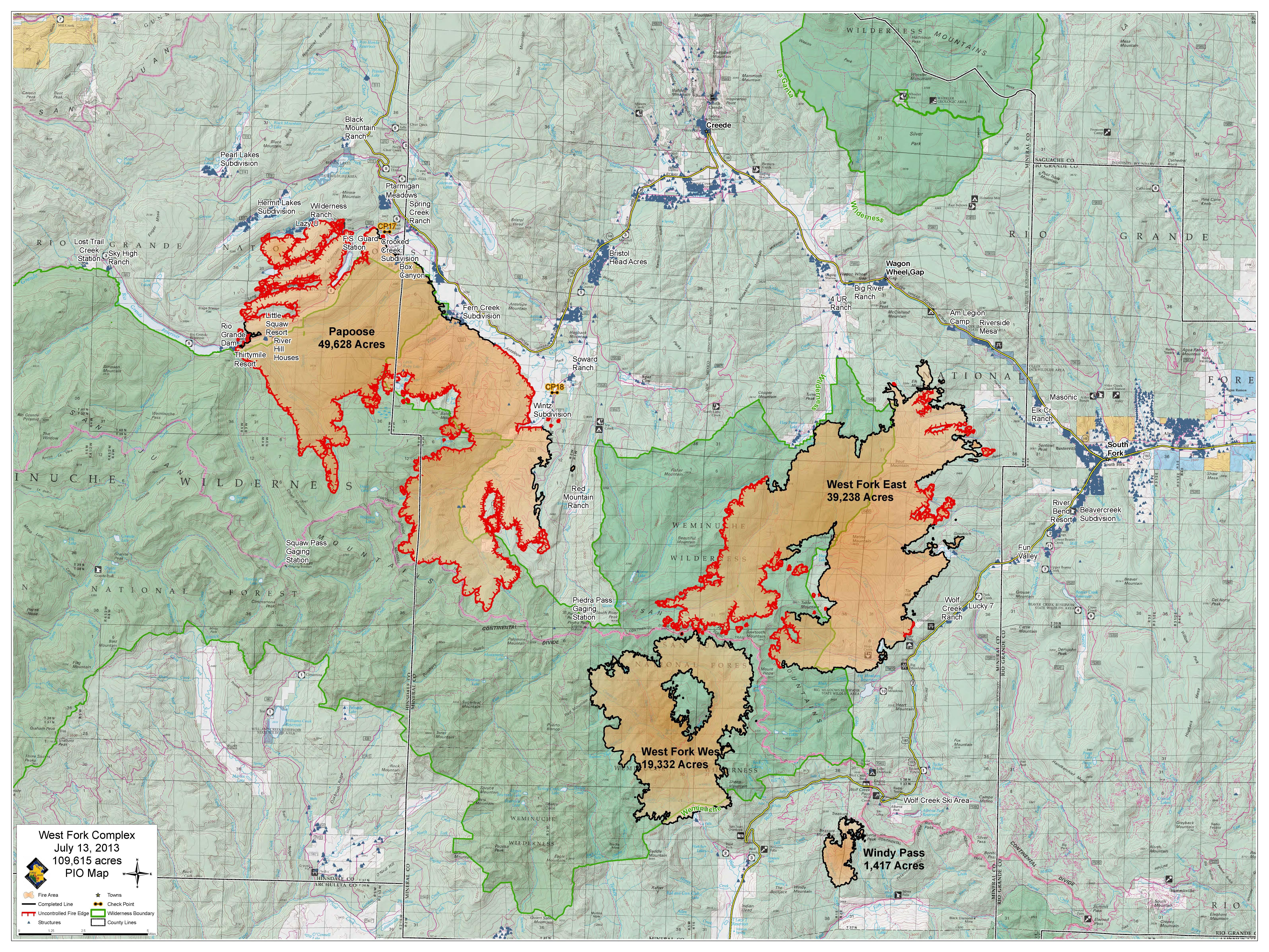 The final map of the West Fork Complex issued July 13, 2013. At that point the fire was 50% contained and mopping up operations were in progress with monsoon rains expected